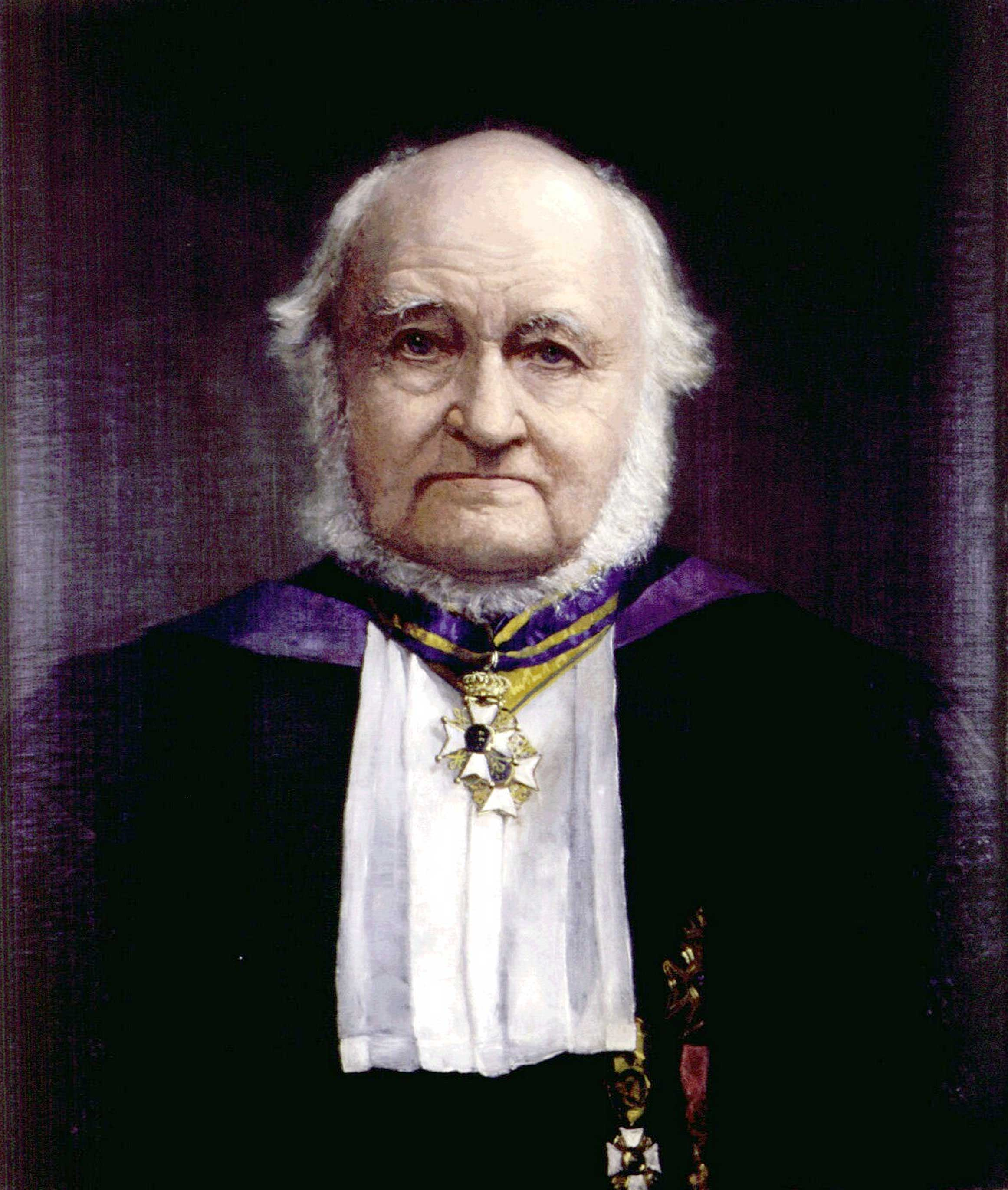 Nicolaas Beets (1814-1903) Dutch Reformed theologian, church historian, poet and writer